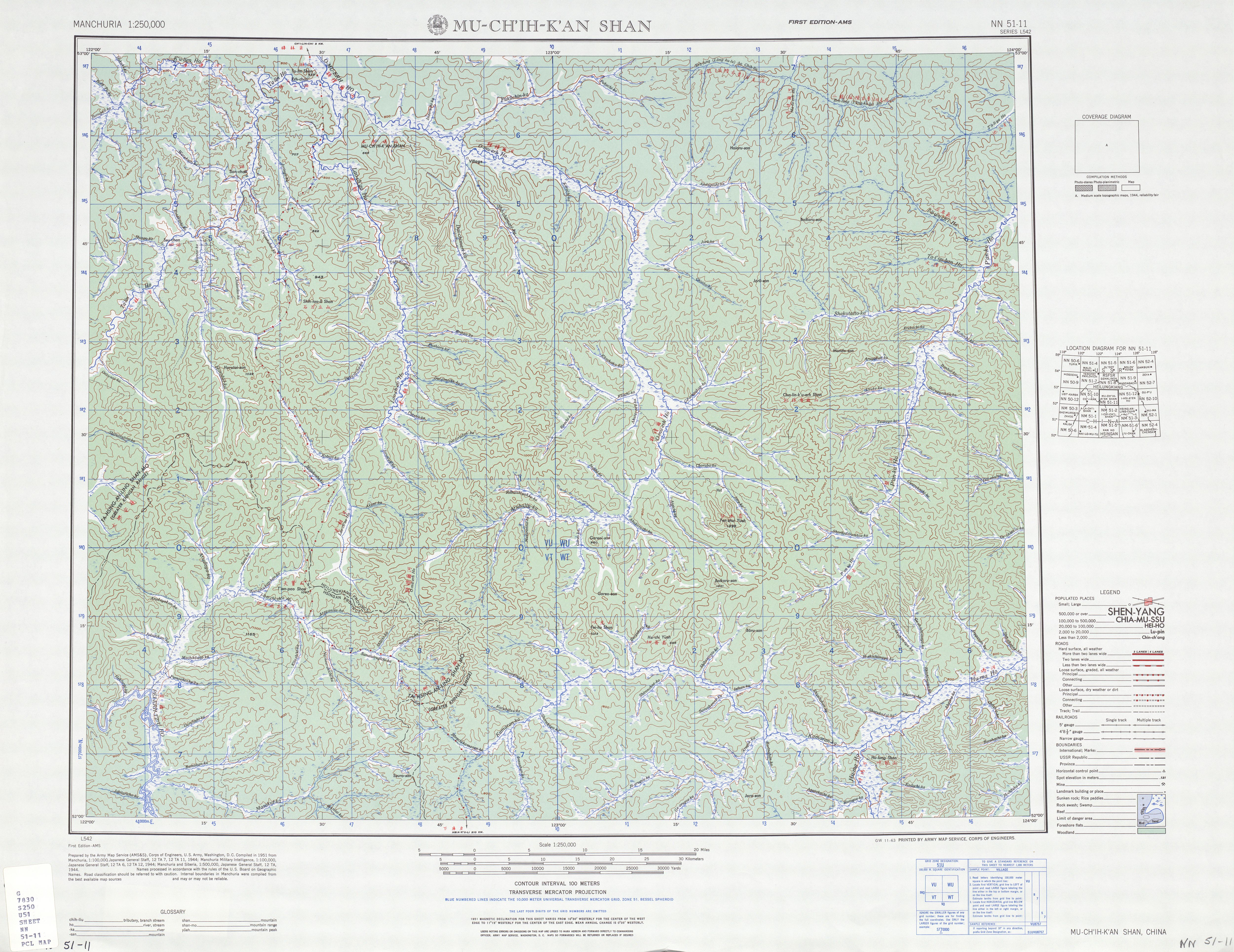 Manchuria AMS Topographic Maps